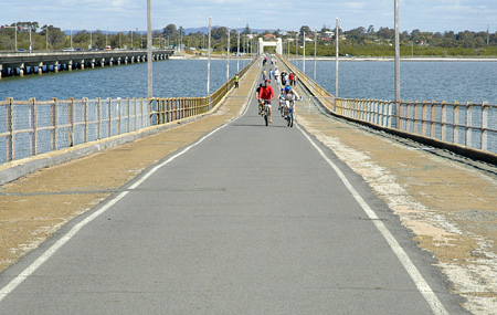 Hornibrook Bridge in Australia